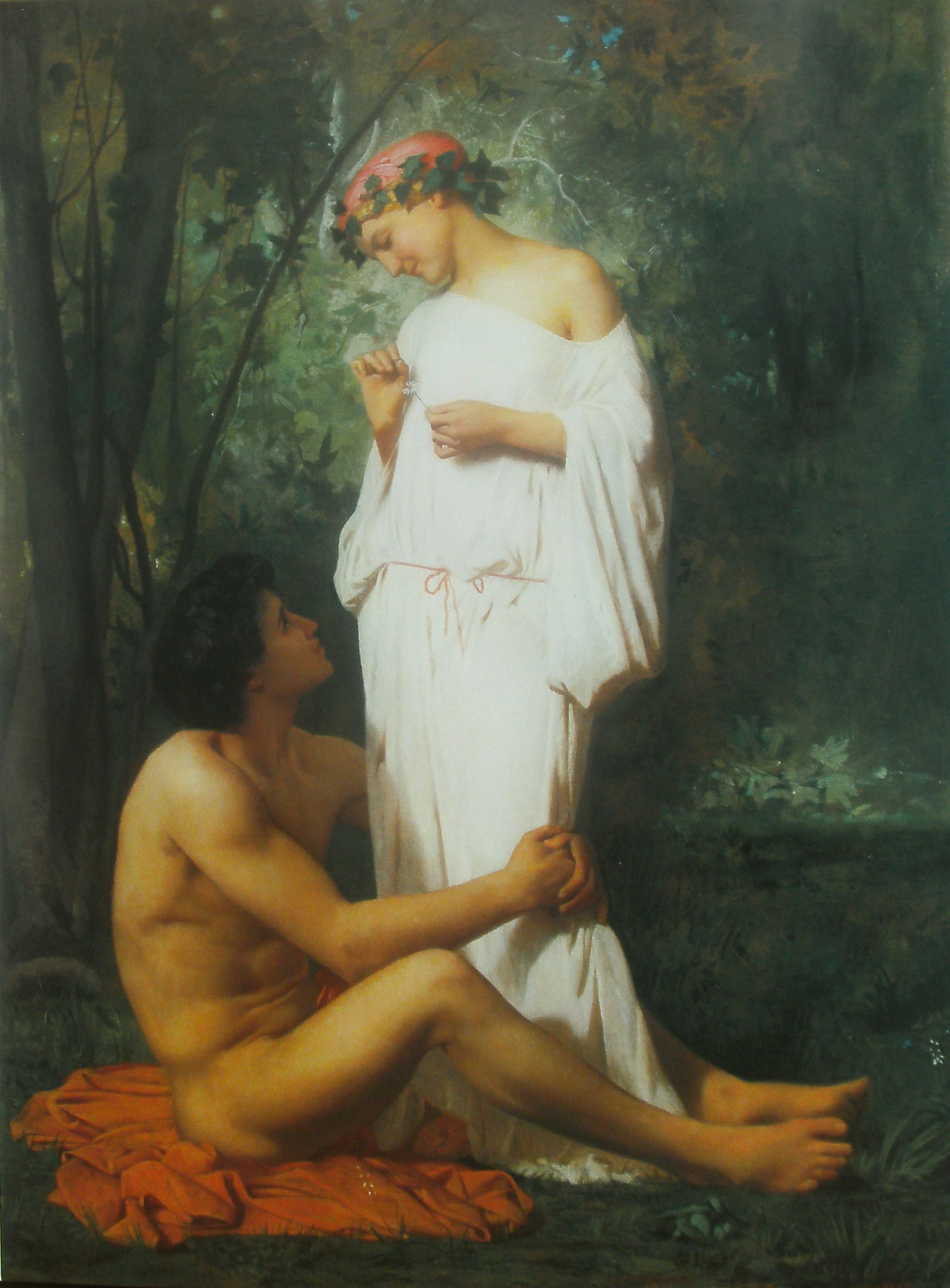 Catalogue number: 1852/06 In 2010 the painting was owned by Juan Antonio Pérez Simón, whom resided in Mexico.